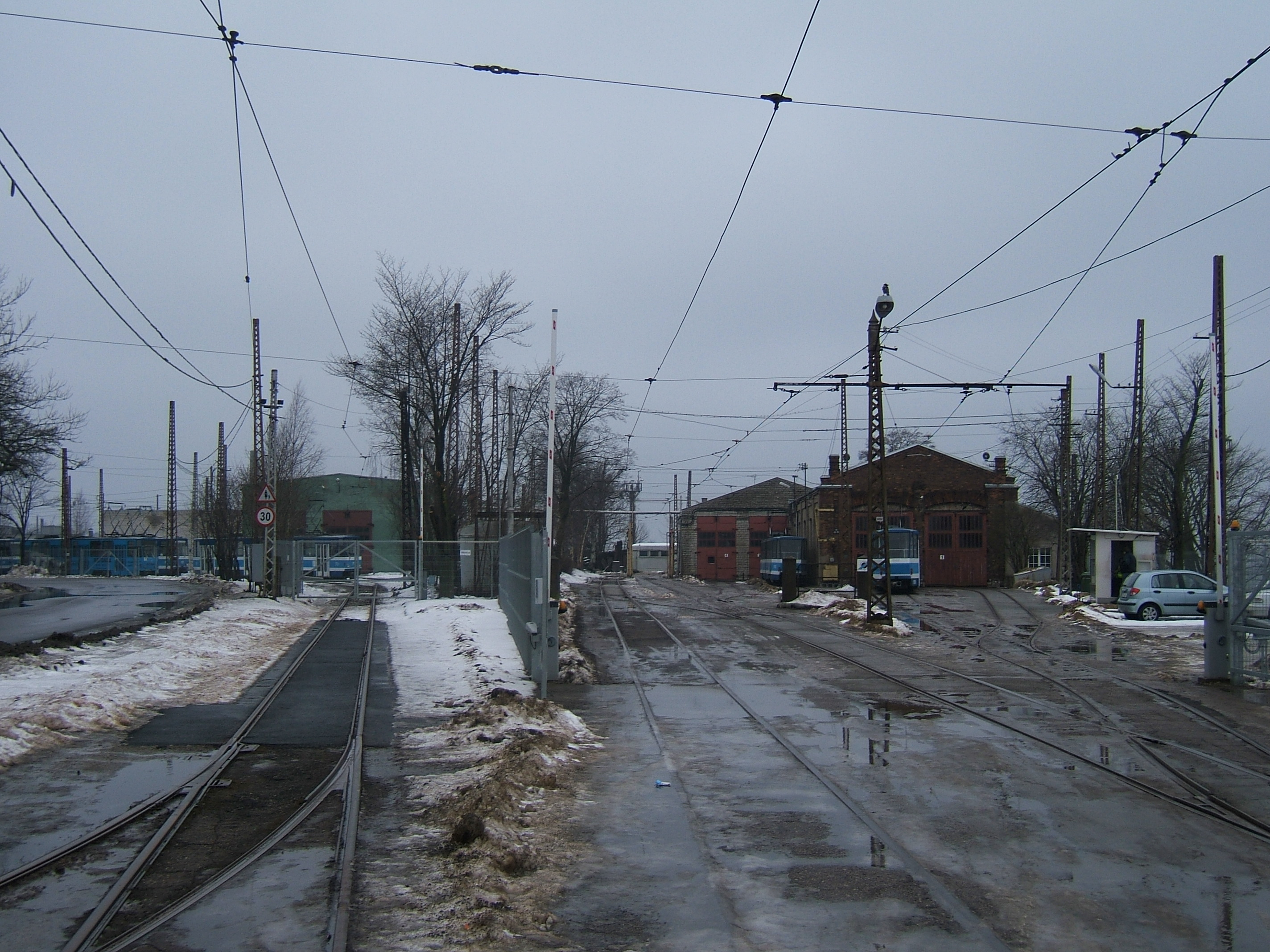 Kopli Tram Depot in Tallinn